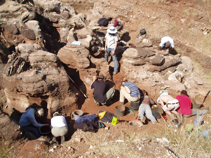 Field School Students Excavating at Gladysvale cave External Deposits